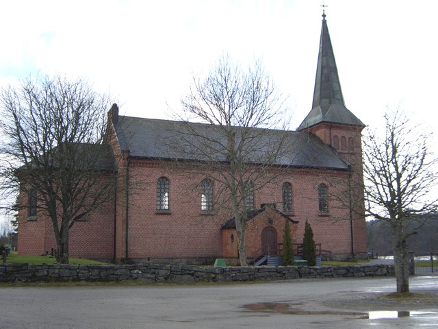 Aremark church